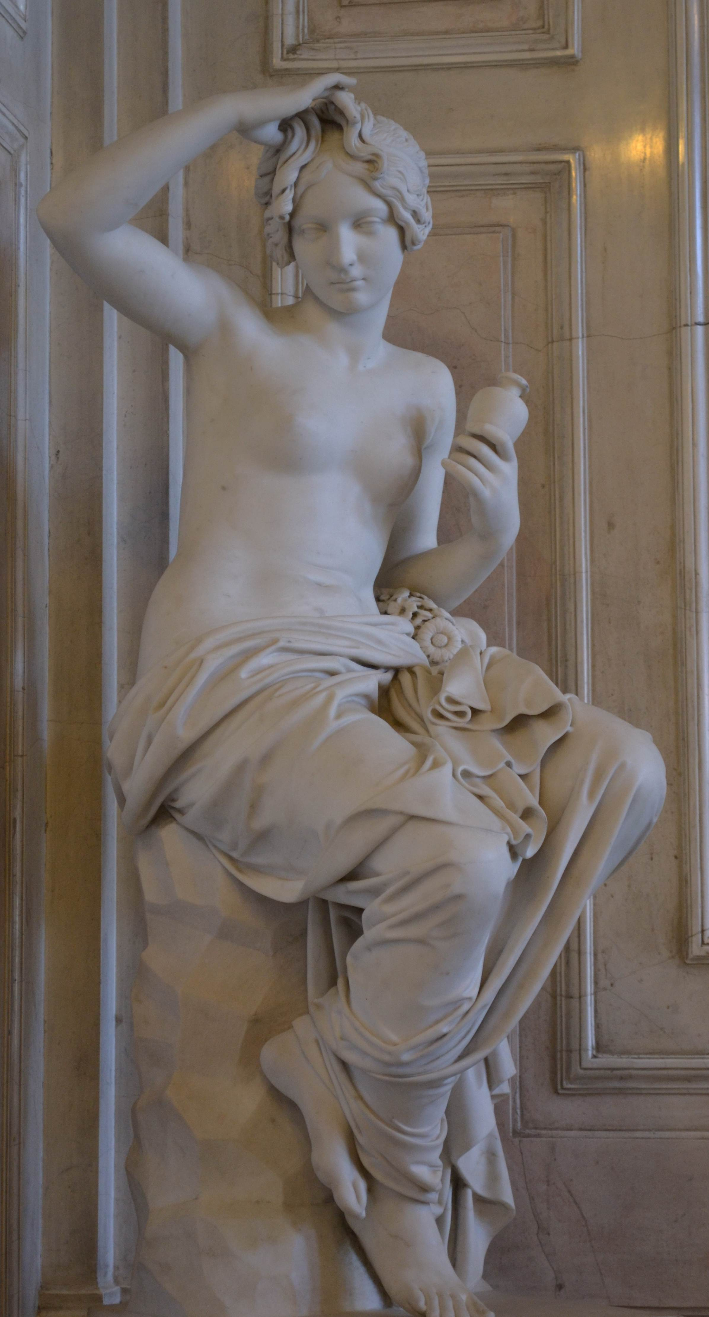 Ludwig Wilhelm Wichmann statue in Hermitage